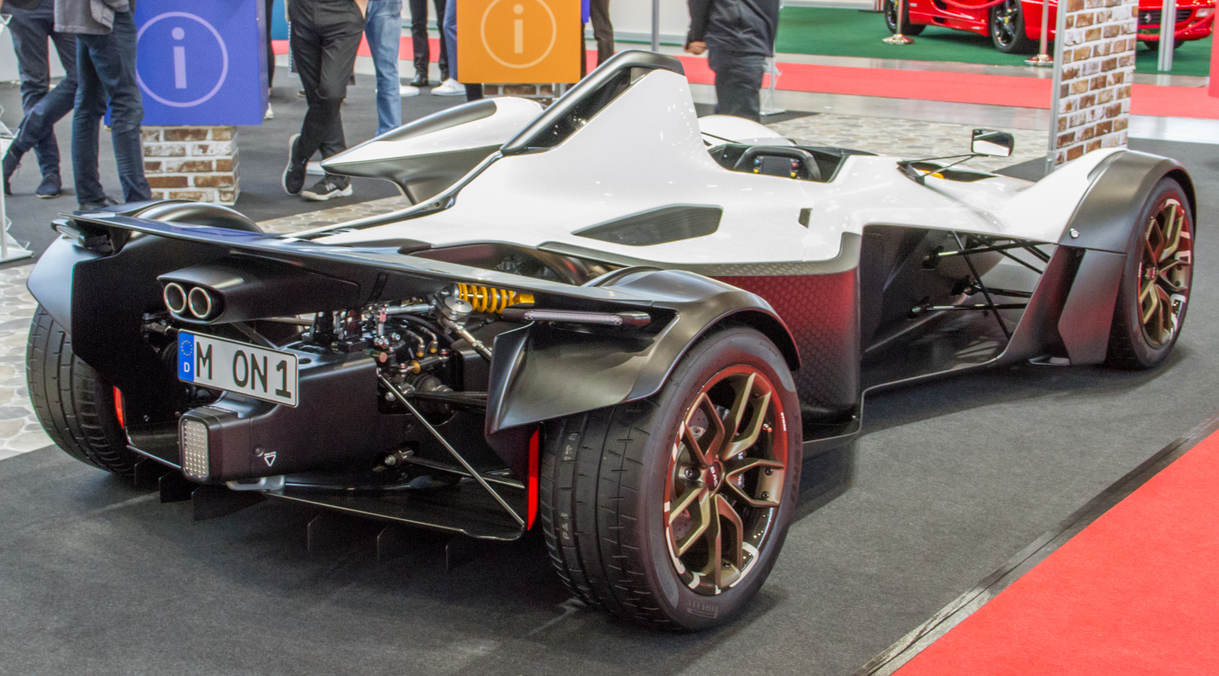 BAC_Mono_R at Retro Classics 2020